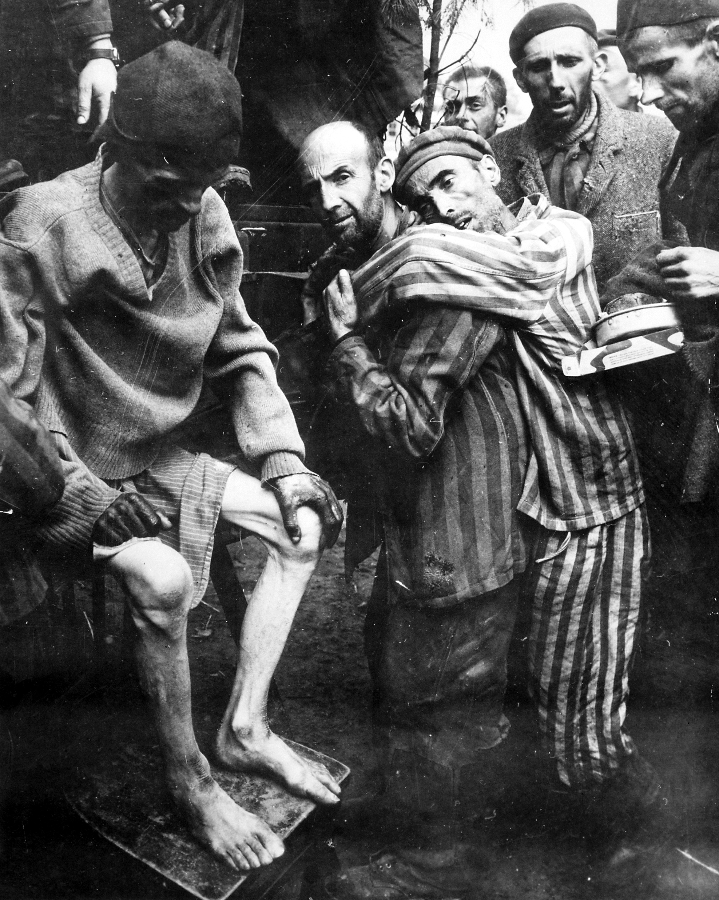 Wobbelin Concentration Camp, Germany, recently captured by troops of the 82nd Airborne Division. Many prisoners were found nearly starved to death. Here former prisoners are being taken to a hospital for medical attention.